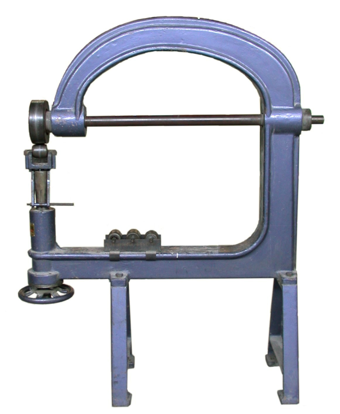 English wheel with rollers. A hand powered tool for creating curved shapes in sheetmetal. The image shows four interchangable lower rollers (anvils), the larger fixed upper roller, the pressure adjustment screw and a quick release mechanism .